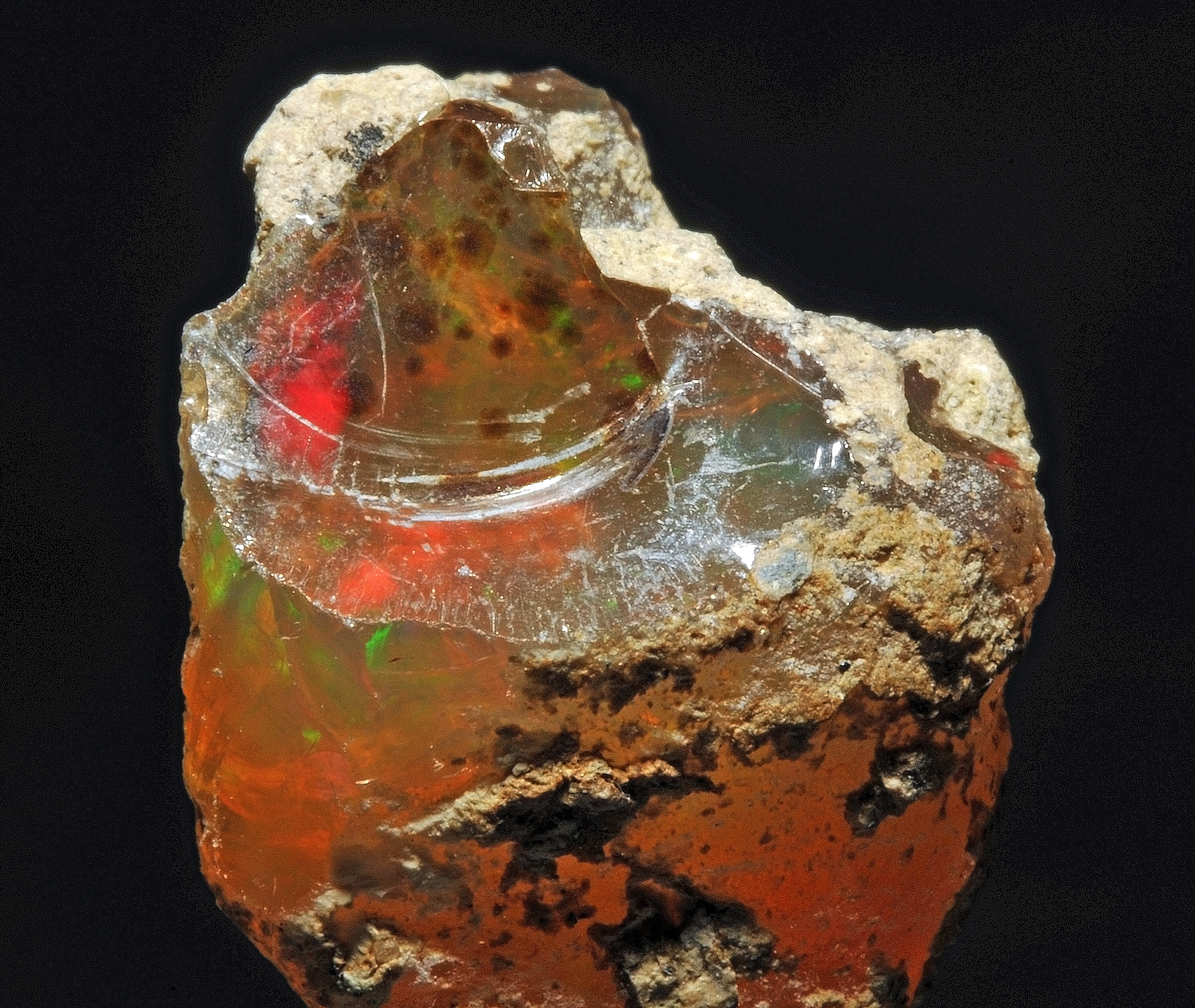 quartz var. fire opal : Wegel Tena, Delanta Woreda district, Amhara Kilil-Amhara Region, Wollo (Wello, Welo) Zone, Ethiopia